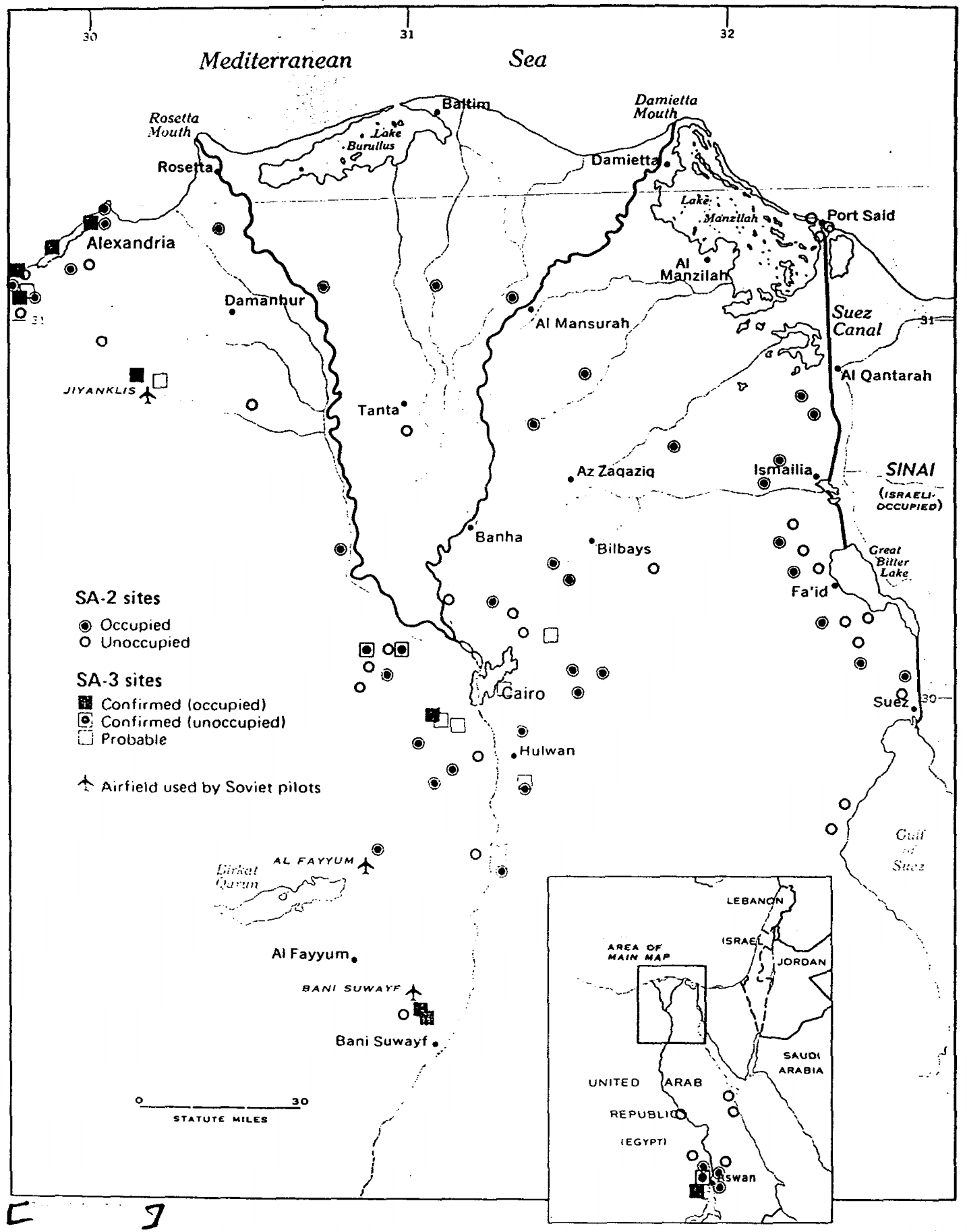 Soviet SAM Sites in Egypt as of May 1970 Top Secret CIA Estimate: Occupied and unoccupied SA-2 and SA-3 sites, and the airfields, used by Soviet pilots.